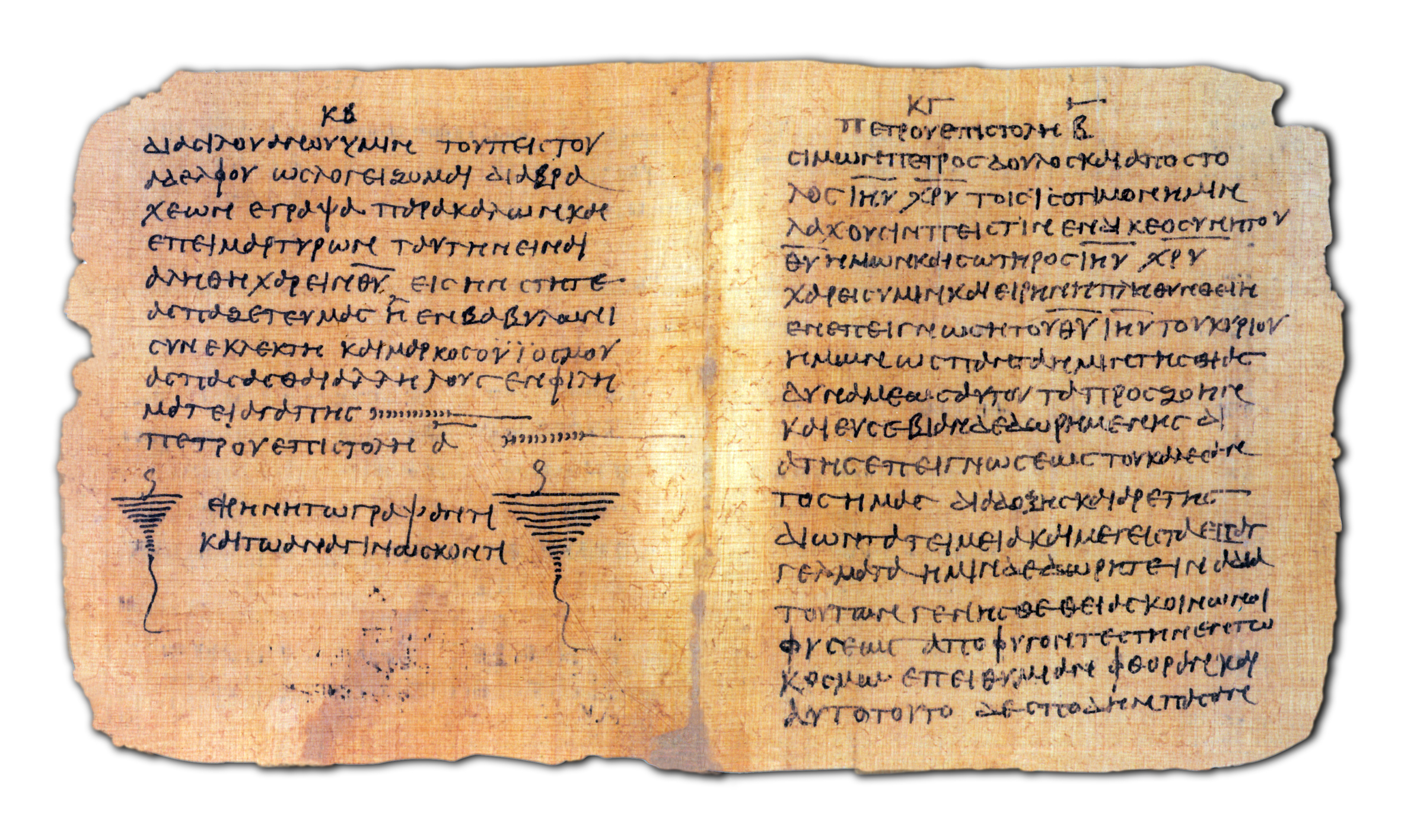 Papyrus Bodmer VIII, Original: Biblioteca Apostolica Vaticana